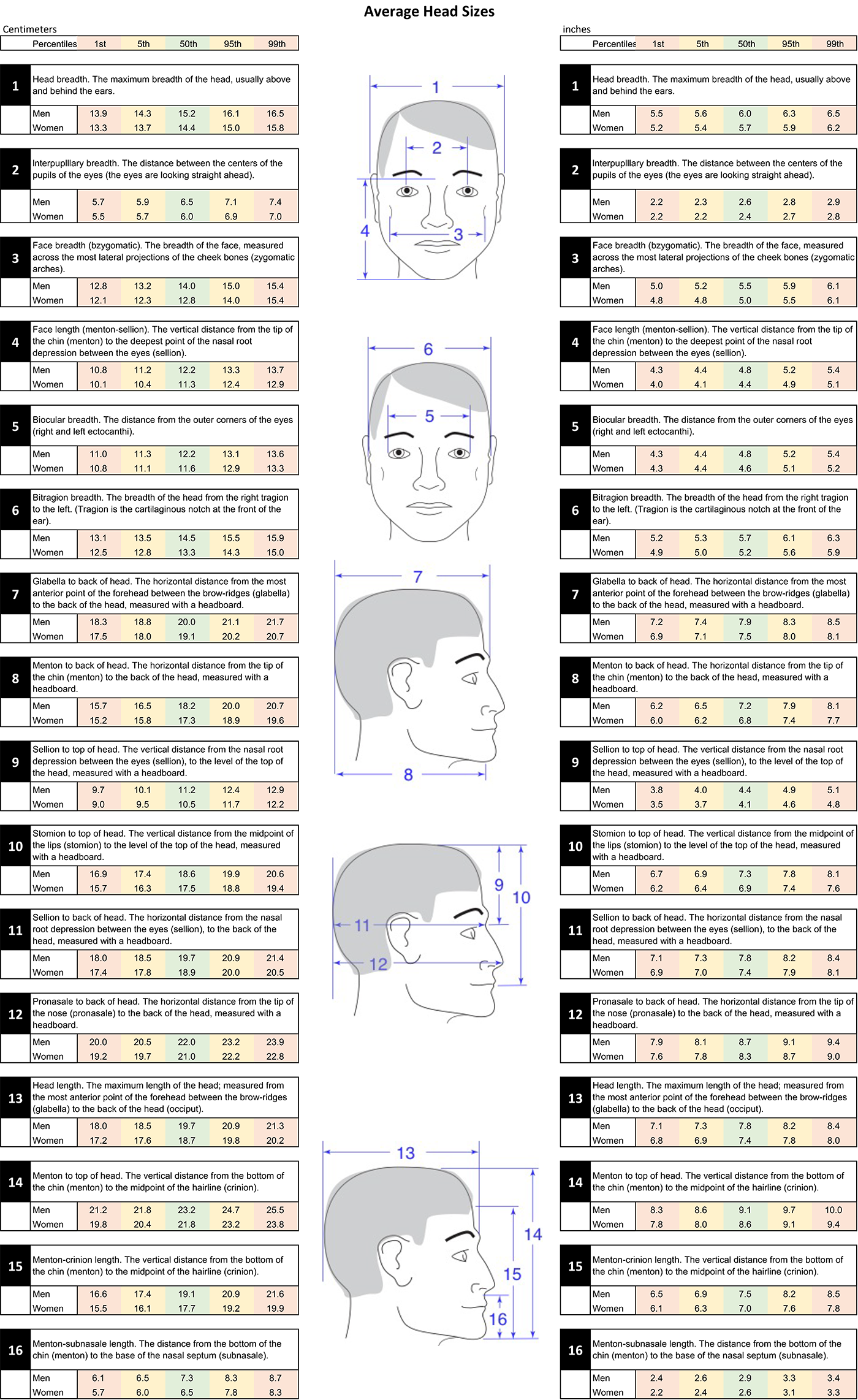 Table of average head dimensions based on data from Wikipedia Anthropometry pages